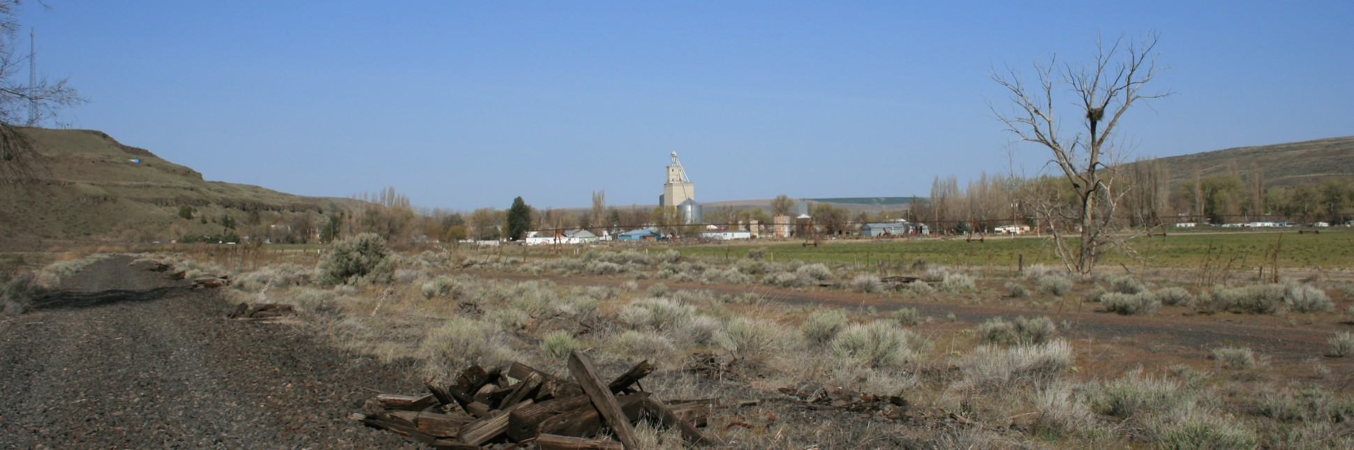 Kahlotus, Washington — as seen from the Columbia Plateau Trail. On the Columbia Plateau in Washington (state) Photo taken and edited by uploader. Used with the Kahlotus article.